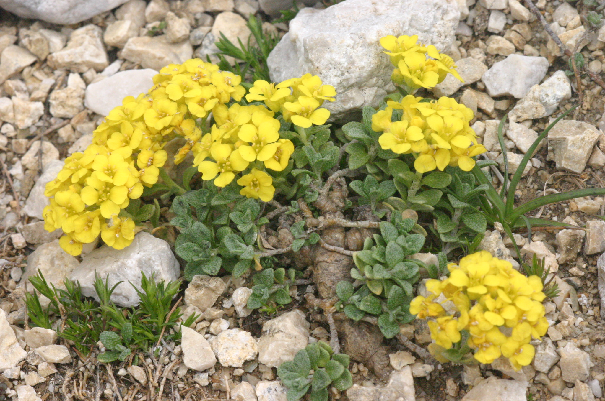 Alyssum ovirense